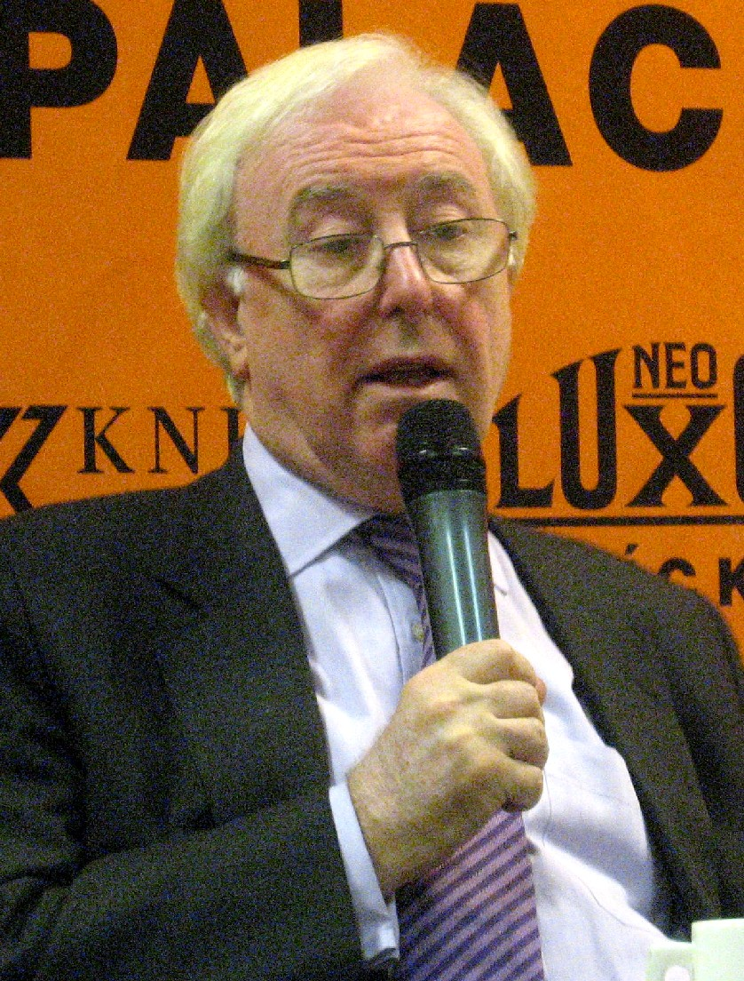 John O'Sullivan in Prague